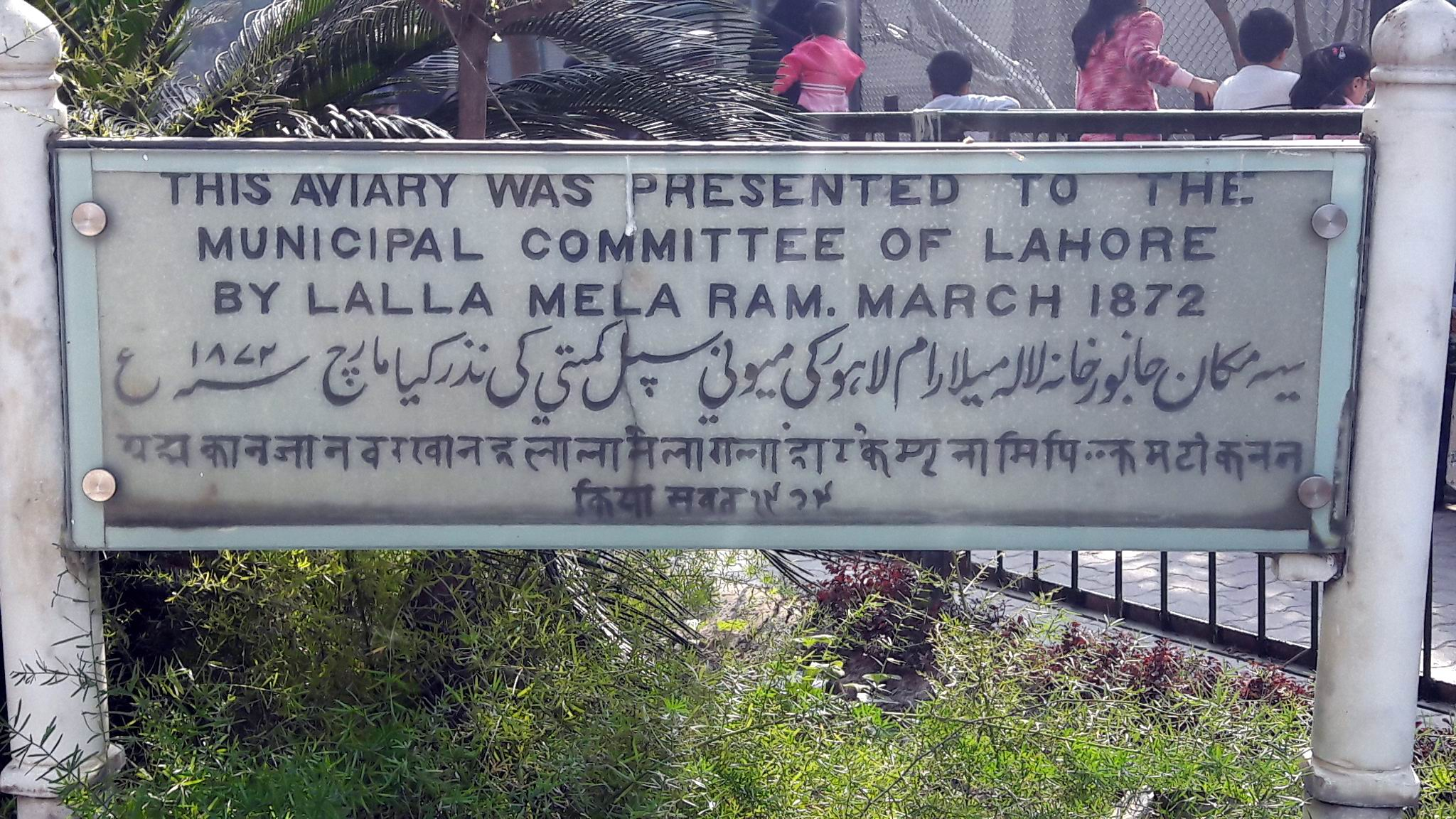 Lahore Zoo